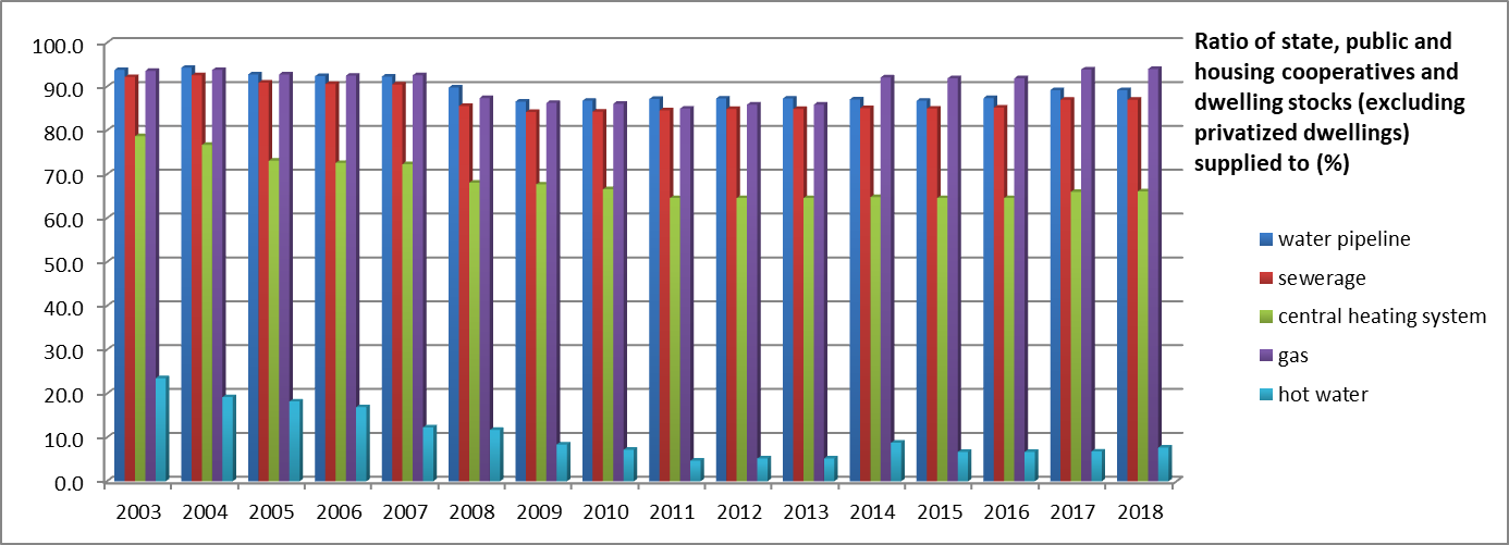 Housing conditions of the population in Azerbaijan in terms of utilities extracted - Housing fund - Housing conditions of the population - Improvement of the housing fund (at the beginning of the year, in percent)